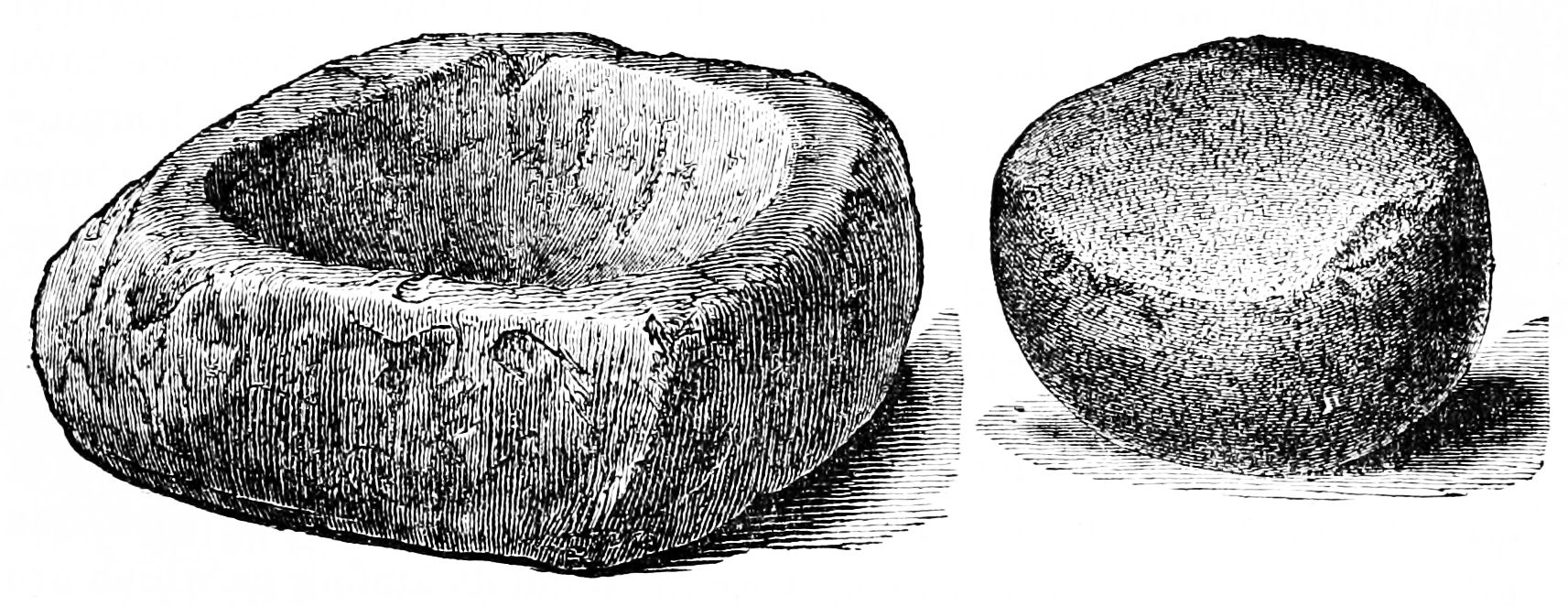 Pestle and mortar